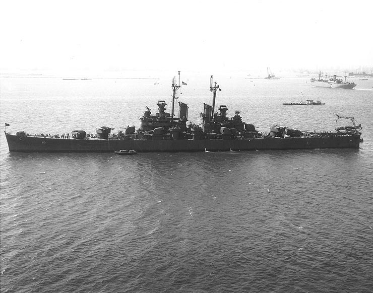 USS Santa Fe (CL-60) off San Pedro, California, in July 1945, after an overhaul.